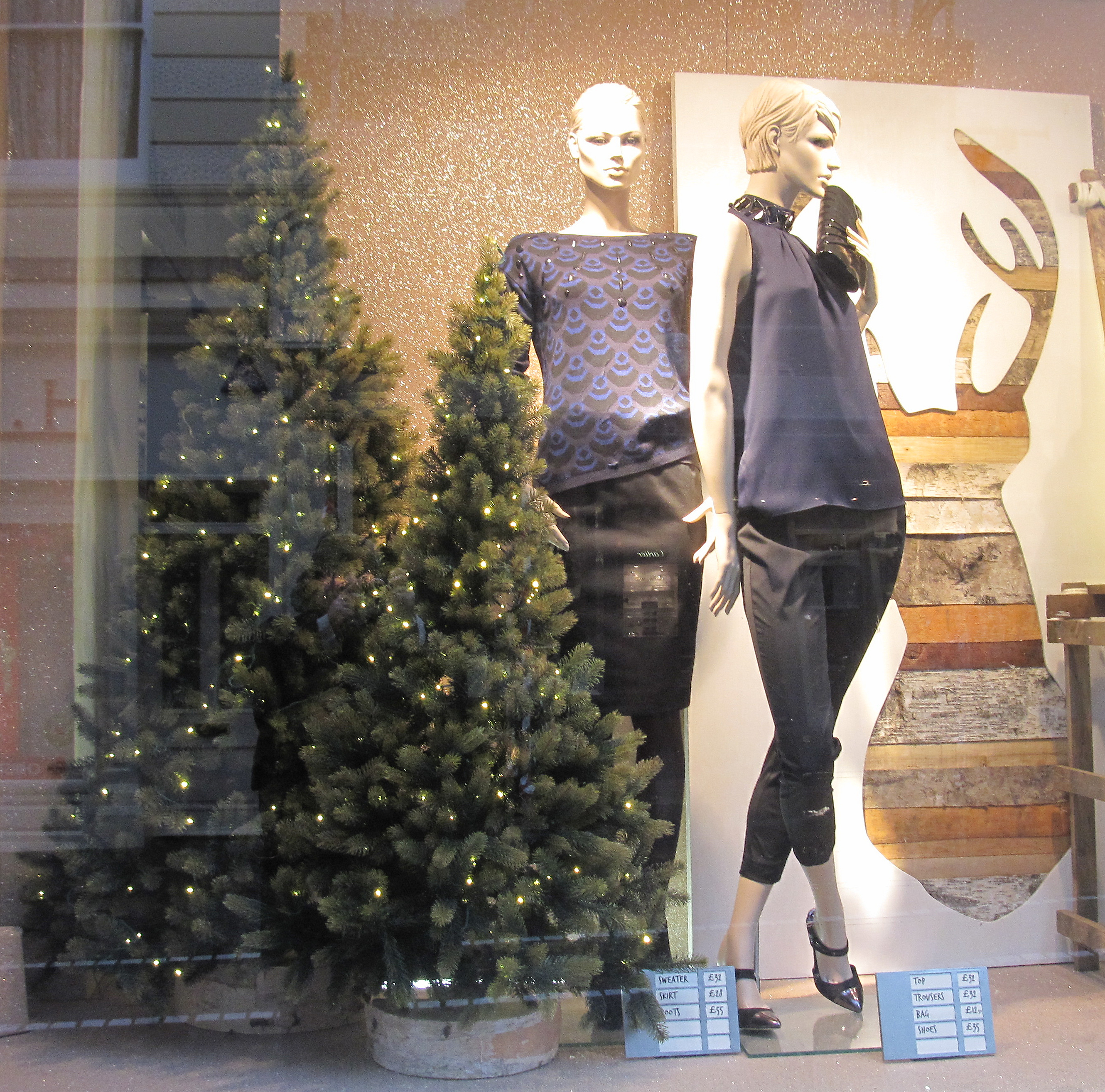 2012 Christmas window display in town shop, Saint Helier, Jersey